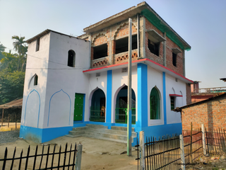 Jama masjid an important landmark of Rashid Pur Altabari